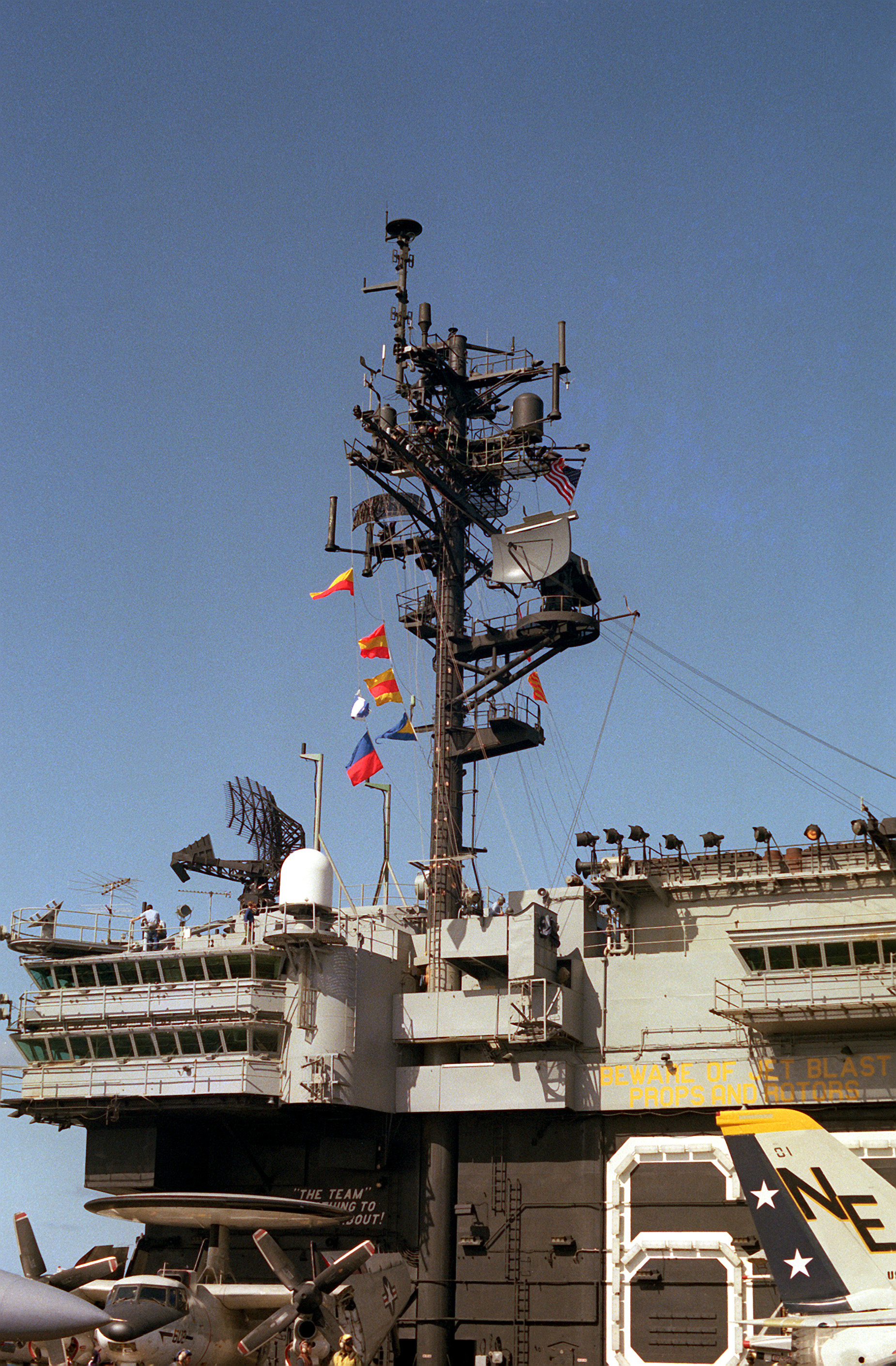 View of the mast of the U.S. Navy aircraft carrier USS Kitty Hawk (CV-63) in 1983. TACAN URN-25 is on top of the mast, SPS-10 radar (left) and SPN-43 (right). The (then) newly installed SPS-49 is visible on top of the bridge.